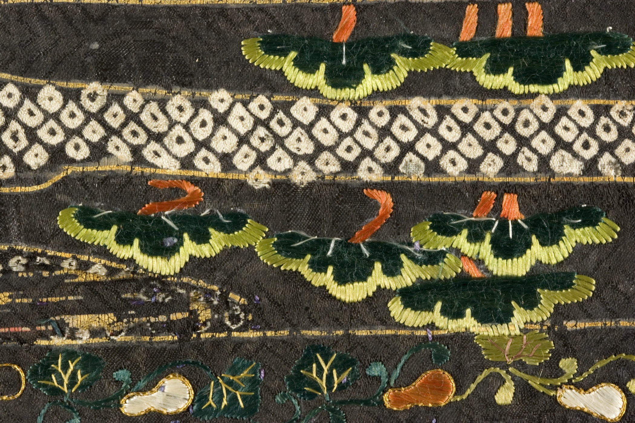 Japan, early Edo period, 17th century Costumes Tie-dyeing (kanako shibori), silk and metallic thread embroidery (shisu) and gold leaf (surihaku) on figured silk satin (rinzu), brocaded silk Purchased with funds provided by David G. Booth and Suzanne Deal Booth, and Camilla Chandler Frost through the 2006 Collectors Committee (M.2006.46) Costume and Textiles